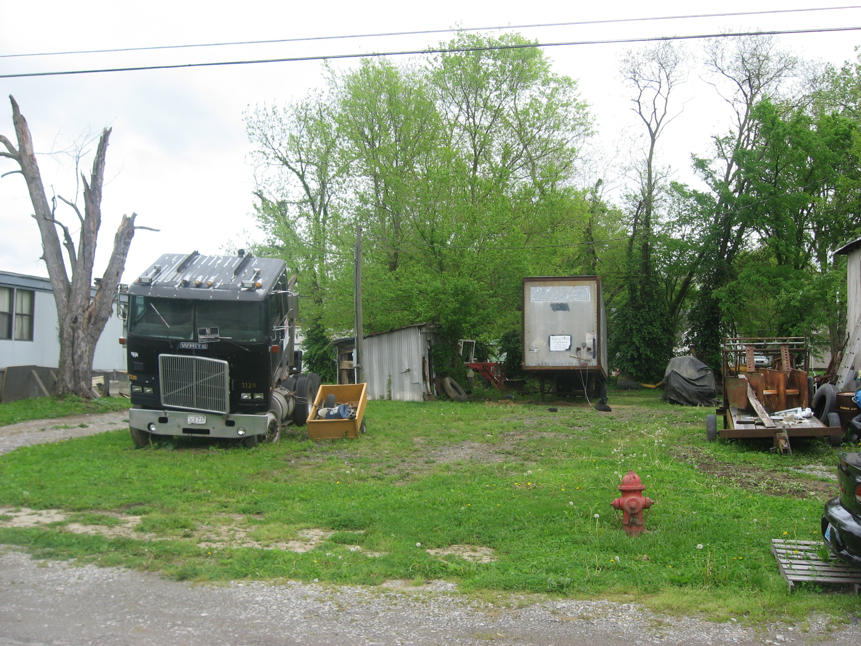 Junk on the site of Charity's House, which was formerly located at 108 Montjoy Street in Falmouth, Kentucky, United States. The house was listed on the National Register of Historic Places in 1983 and has not yet been removed.